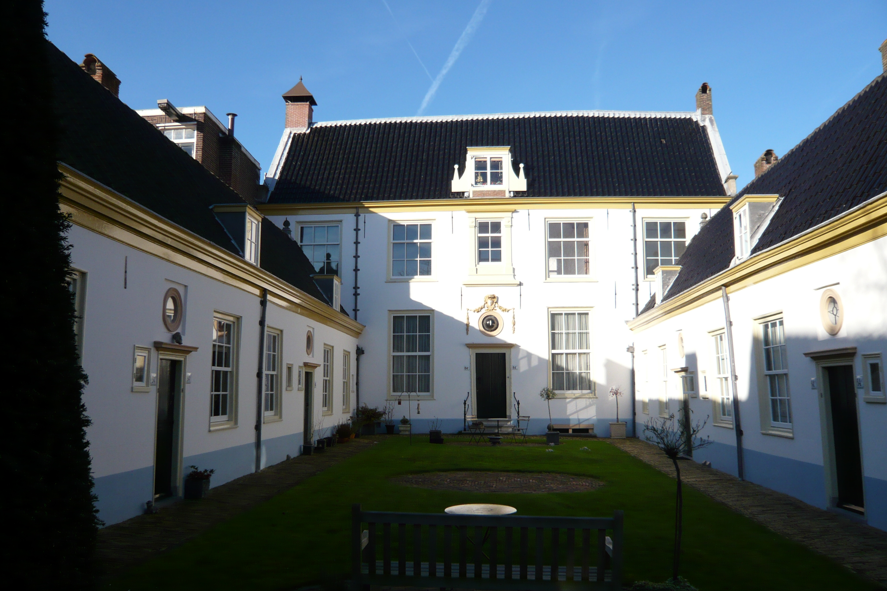 Front of Vrouwe- en Antonie Gasthuys showing the main building from 1648 gate flanked by the 'new' wings from 1730. Located behind the Frans Hals Museum.